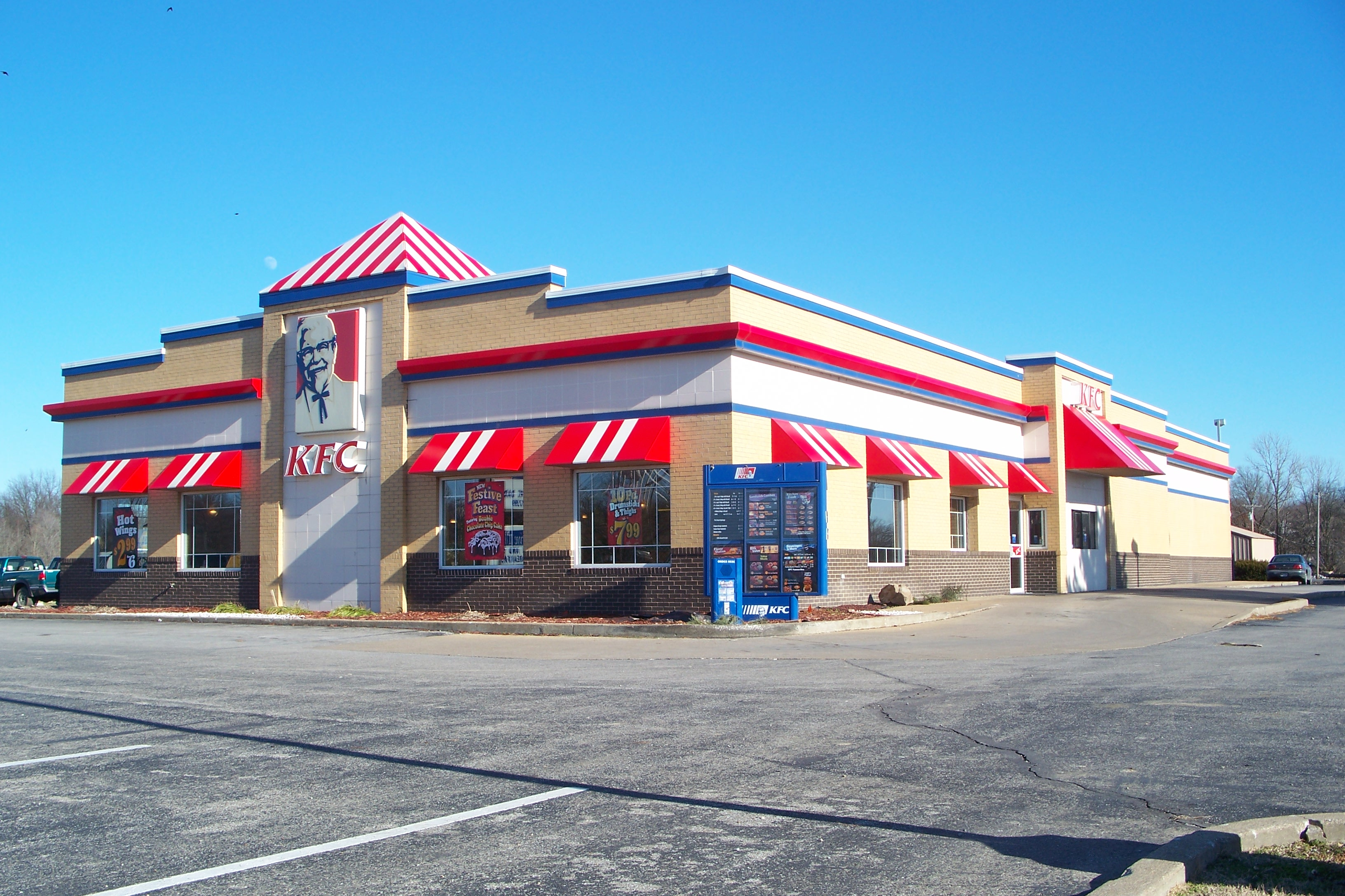 The Largest KFC in the USA, located in Harrisburg, Illinois